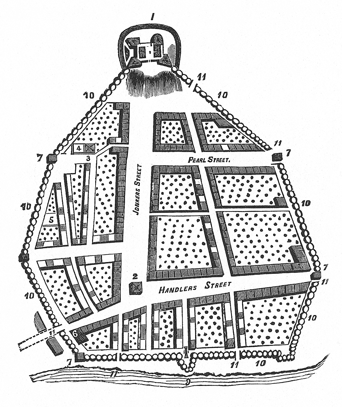 Map of the city of Albany, New York, United States in 1695. Jonkers Street is the current State Street, Handlers Street is the current Broadway, and Pearl Street is still Pearl Street. Key: Fort of Albany Old Dutch Church Dutch Lutheran Church Burial ground Dutch burial ground Stadt Huys (City Hall) Block houses [Apparently not used] Great gun to clear a galley The Stockade Gates of the city (six total)